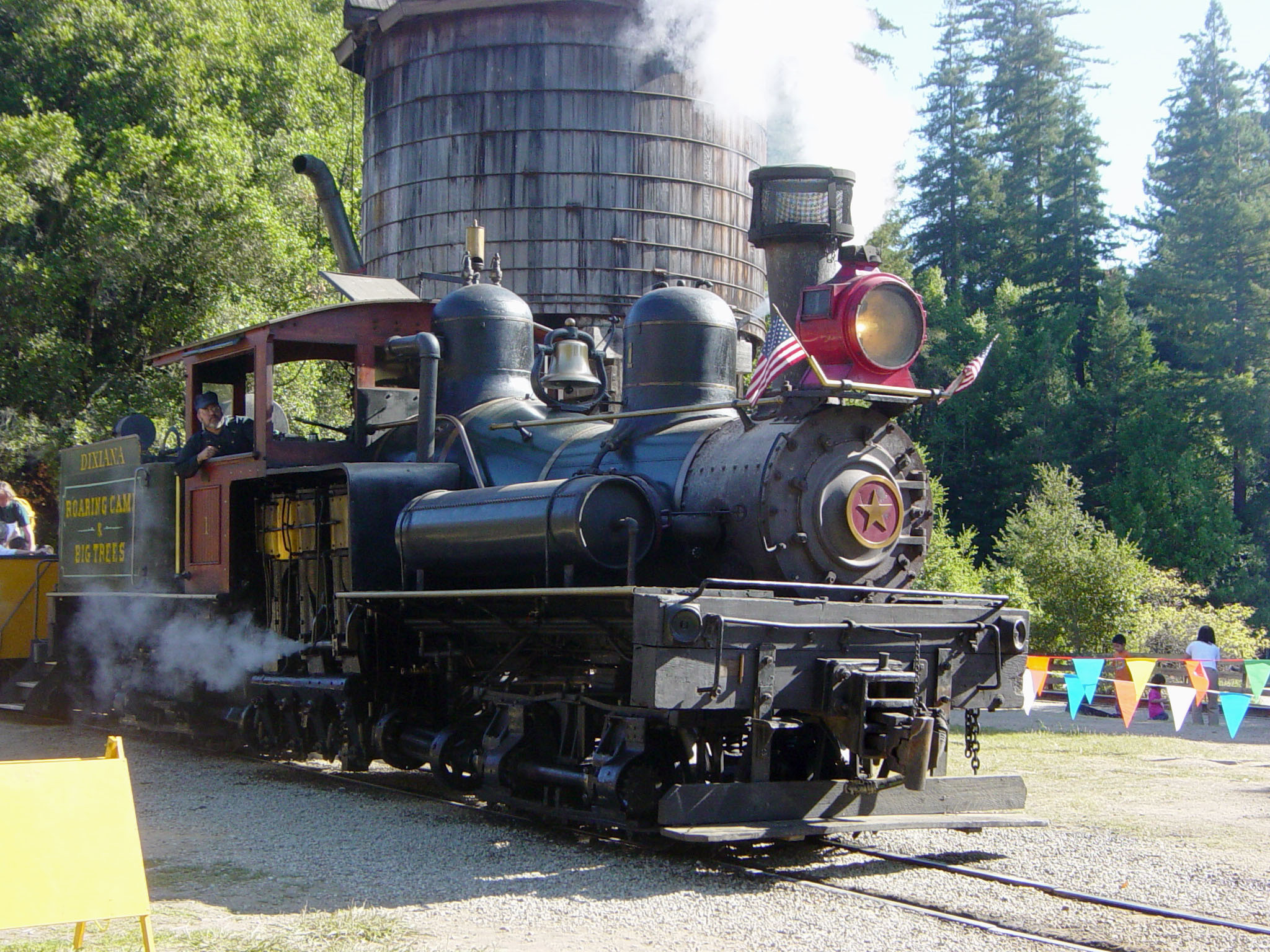 Roaring Camp and Big Trees locomotive "Dixiana", right (drive) side. Image taken August 1, 2004 by User:Leonard G..